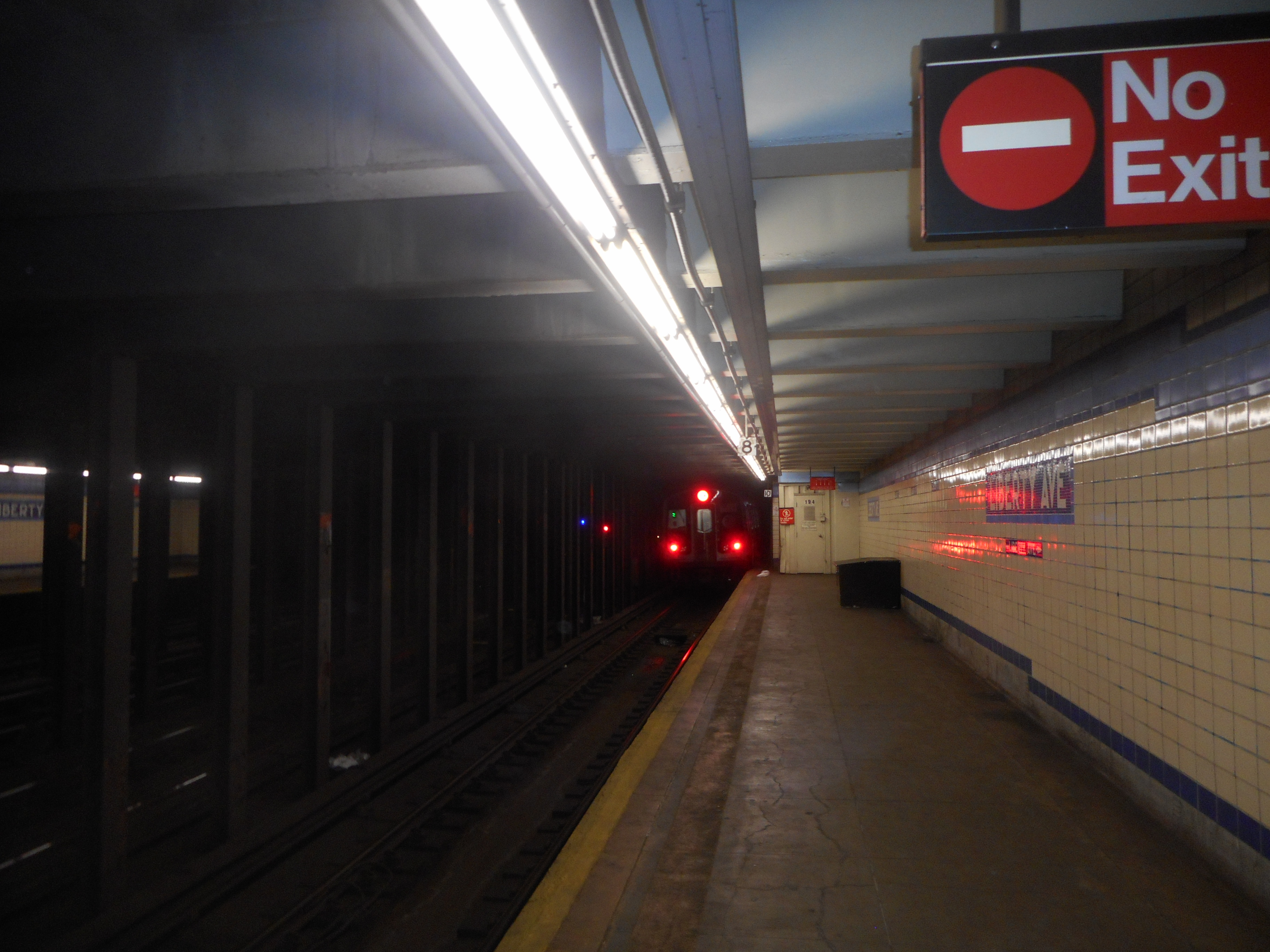 A train leaves the Euclid Avenue-bound platform of the Liberty Avenue Subway station on the IND Fulton Street Line in the East New York section of Brooklyn, New York City. After that station this train will head to the Pitkin Yard, but commuters can still transfer to the train, and either go to Ozone Park-Lefferts Boulevard Elevated Railway station, or one of the two termini in the Rockaways; Rockaway Park–Beach 116th Street (IND Rockaway Line) or Far Rockaway–Mott Avenue (IND Rockaway Line).